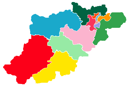 Subdivision of Hangzhou